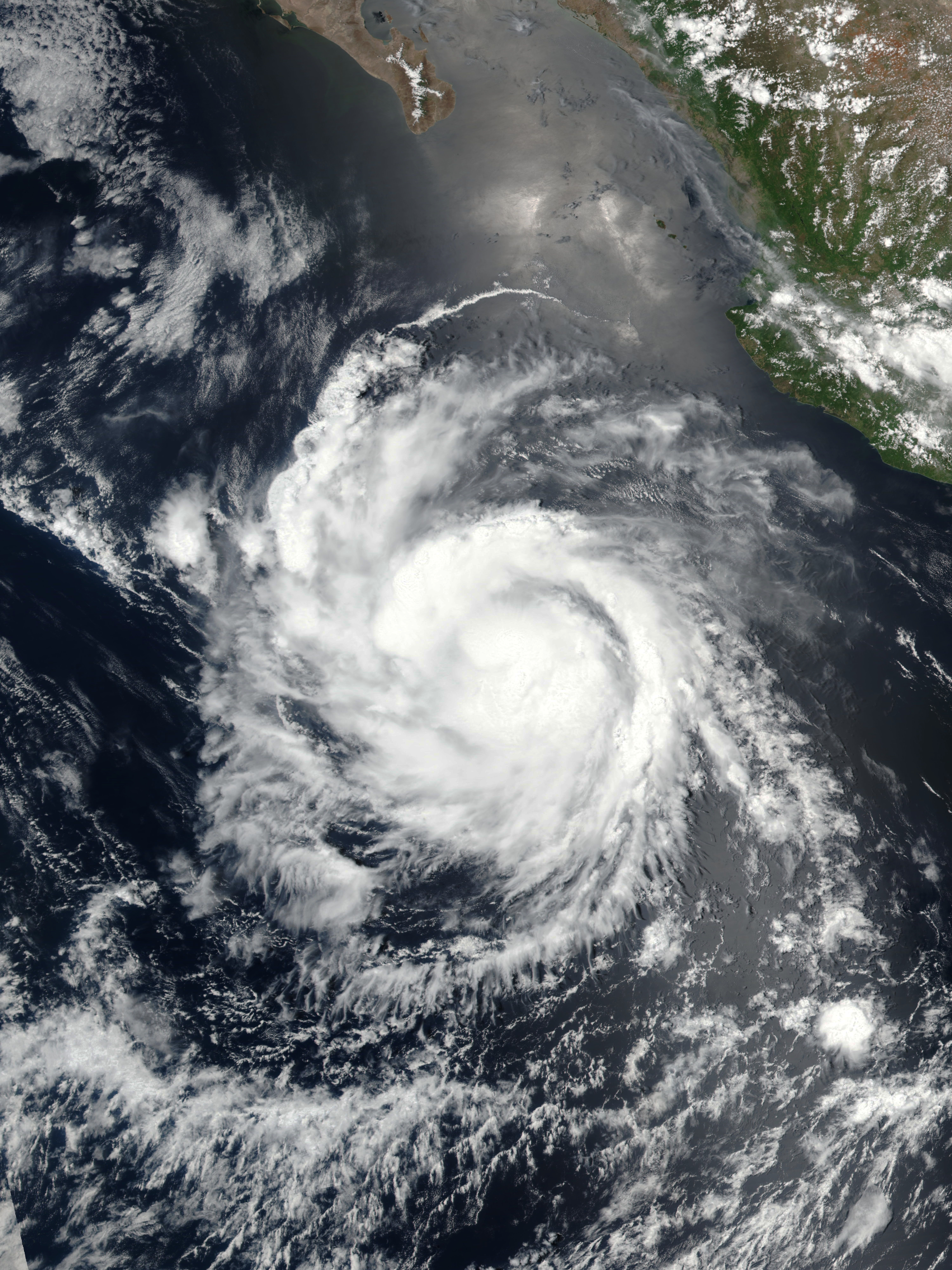 A satellite image of Hurricane Hilary near the coast of Mexico on July 25 2017. Sustained winds are 90 knots.